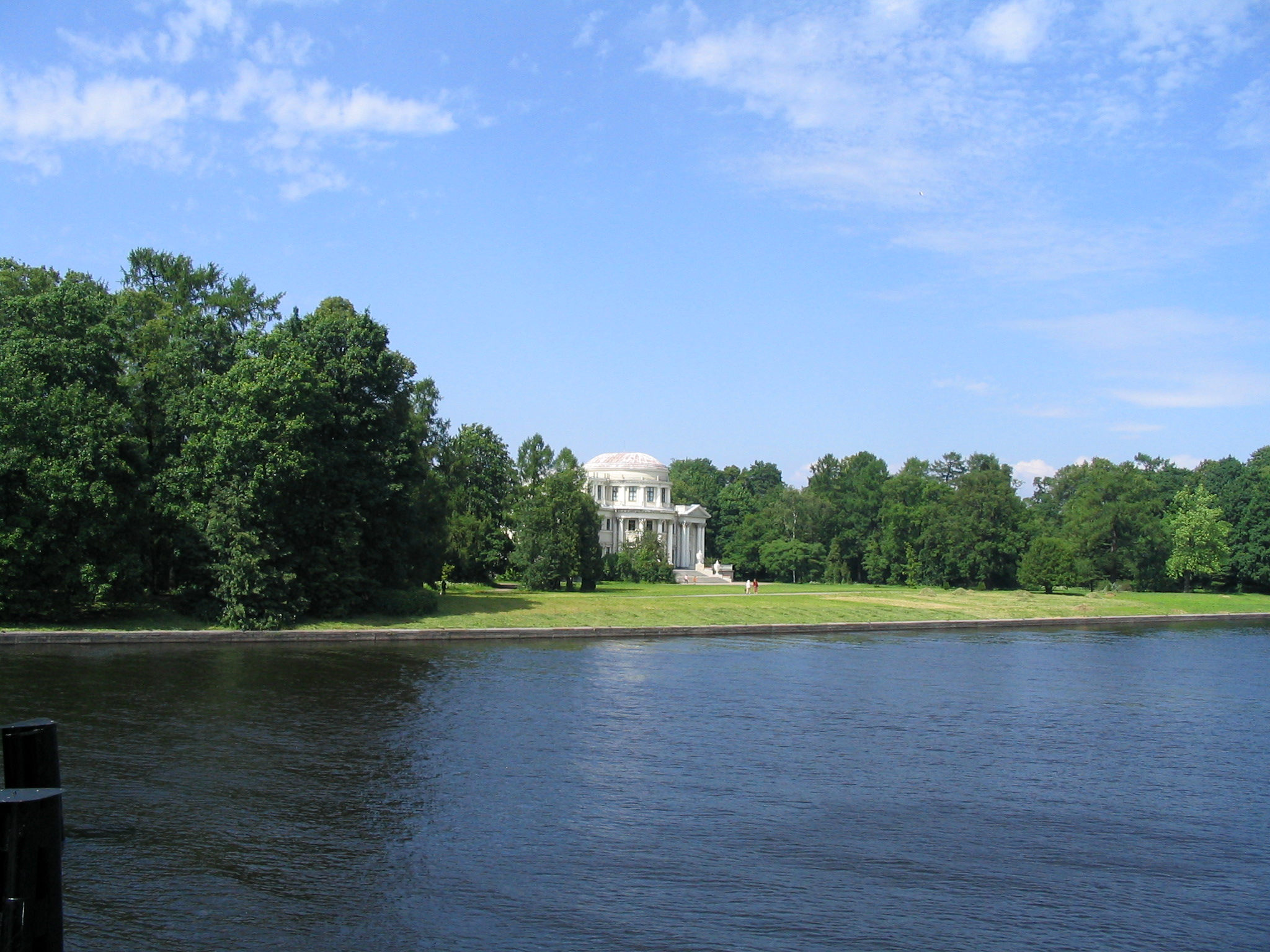 Yelagin Palace in St. Petersburg